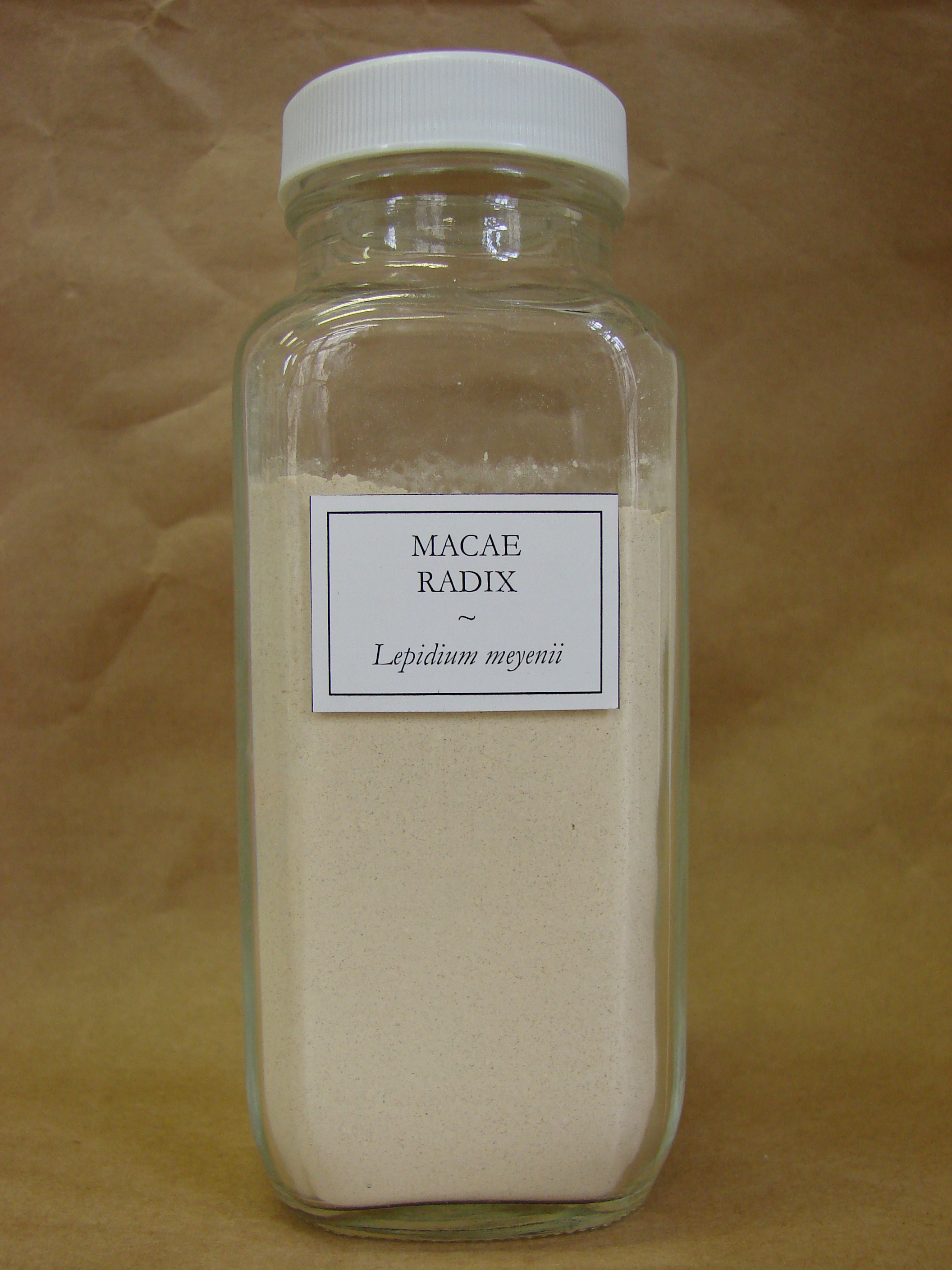 Macae radix, Lepidium meyenii